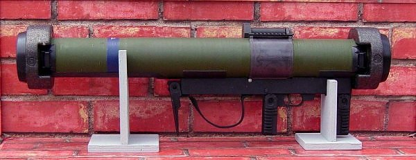 MATADOR on display stand , note the retracted extendable probe